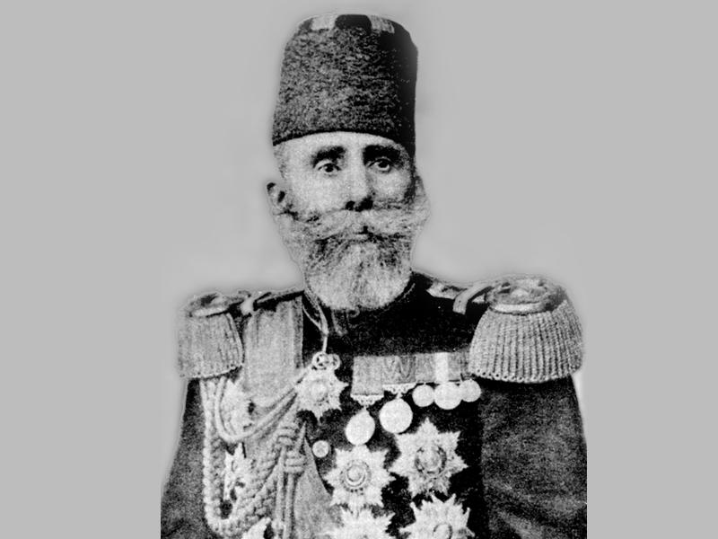 Mahmud Shevket Pasha